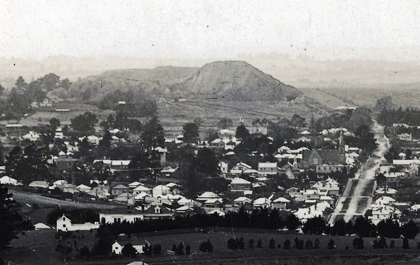 Detail of a postcard showing Onehunga viewed from Waikowhai Park, Hillsborough around 1910, in Auckland, New Zealand. It shows Mount Smart scoria cone before it was quarried away. The postcard publisher was 'Tourist Series'.